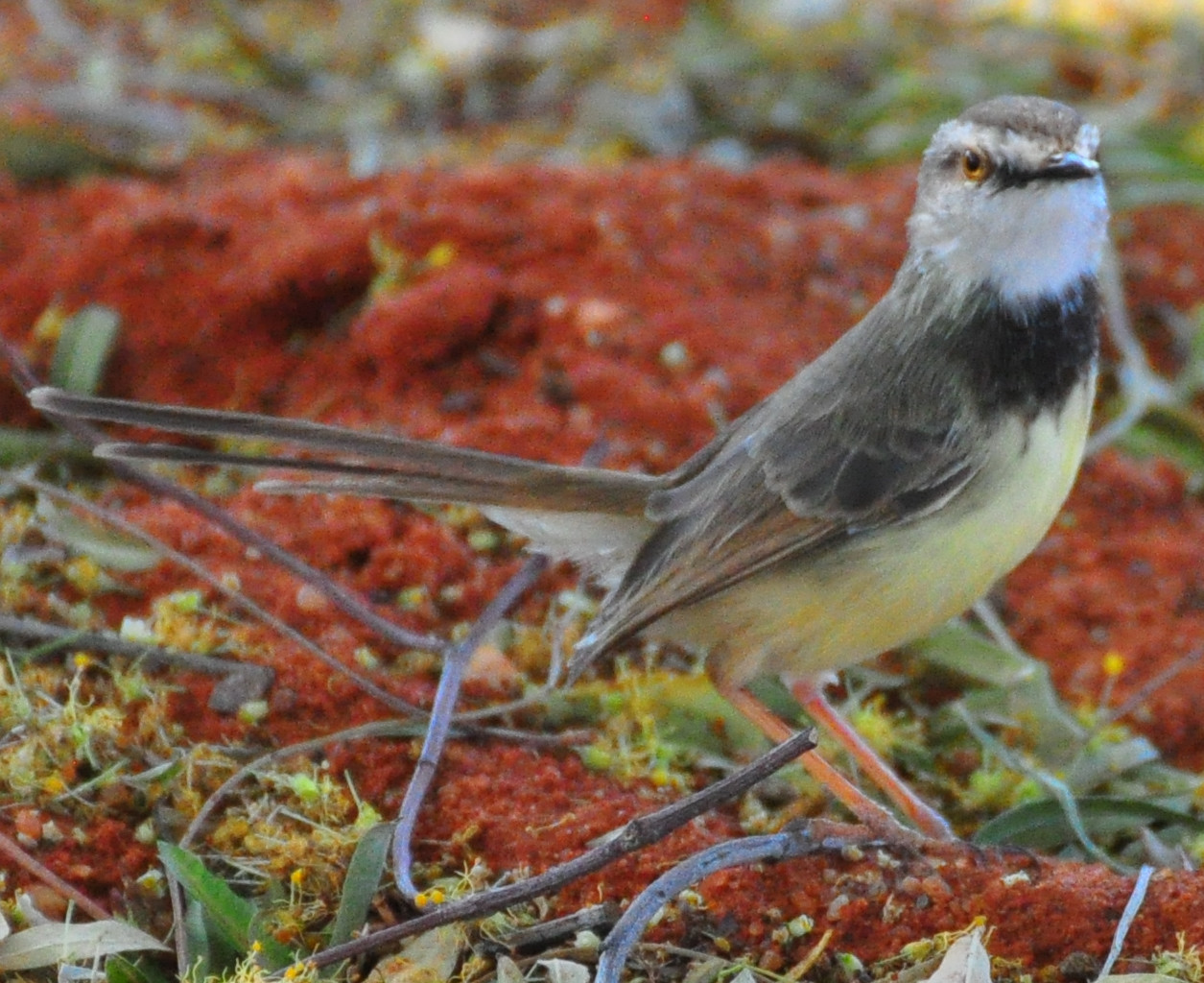 Black chested Prinia, Kalahari Lodge, Mariental, Namibia